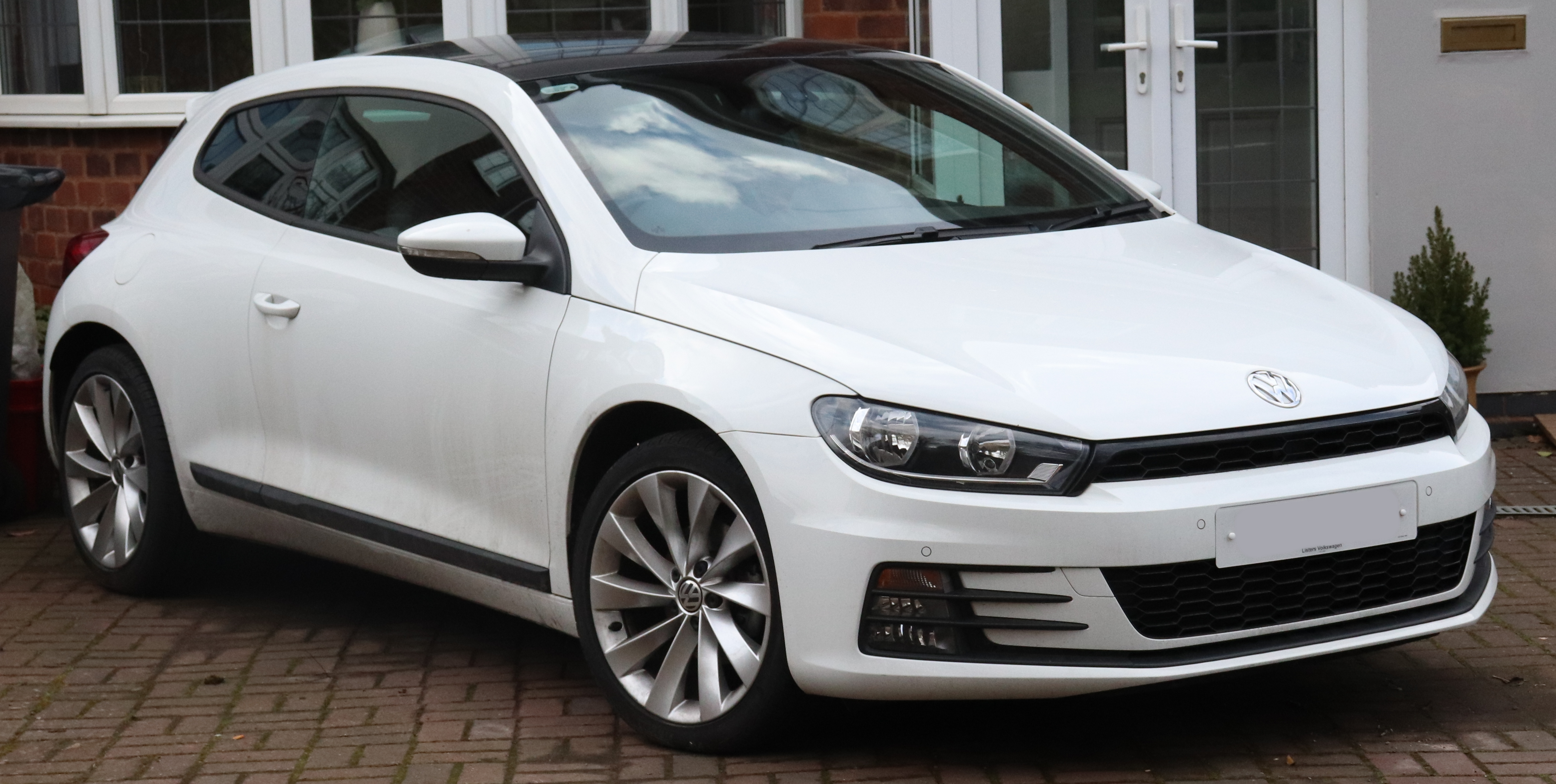 2015 Volkswagen Scirocco GT BlueMotion Tech 2.0 Taken in Leamington Spa